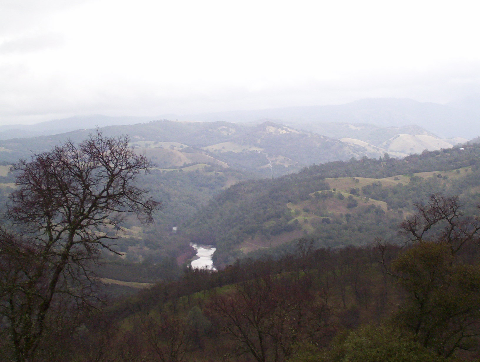 Sierra Nevada foothills — in Calaveras County, California.